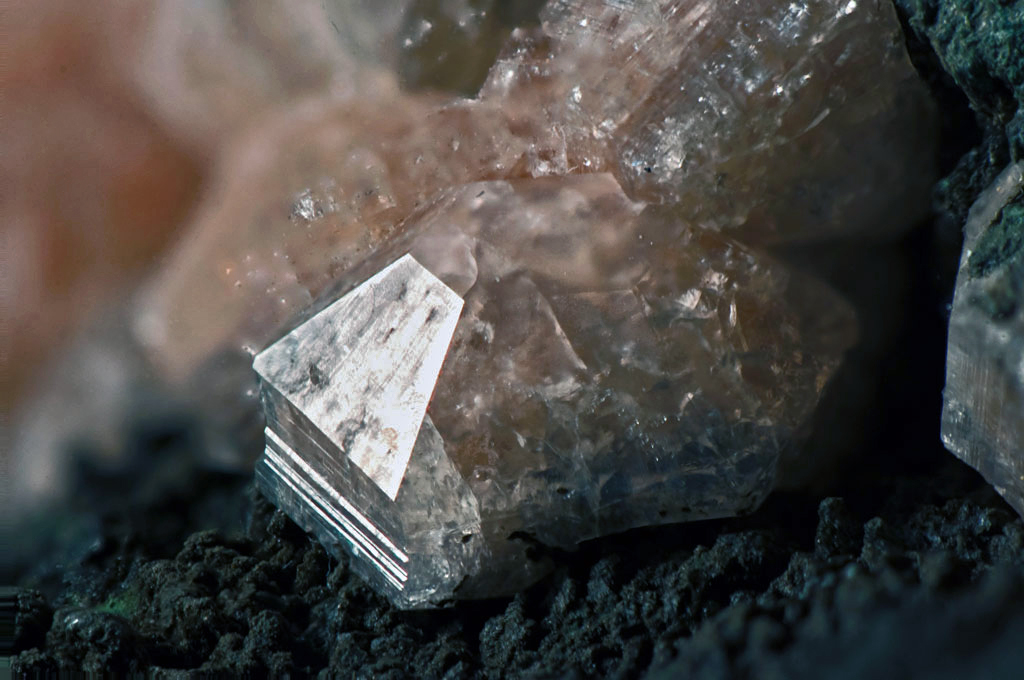 Gmelinite Locality: Two Islands (Brothers), Parrsboro, Cumberland Co., Nova Scotia, Canada Original description: An hexagonal crystal, of pink color, of gmelinite. Diameter 7 mm. Collection and photo of Gianfranco Ciccolini